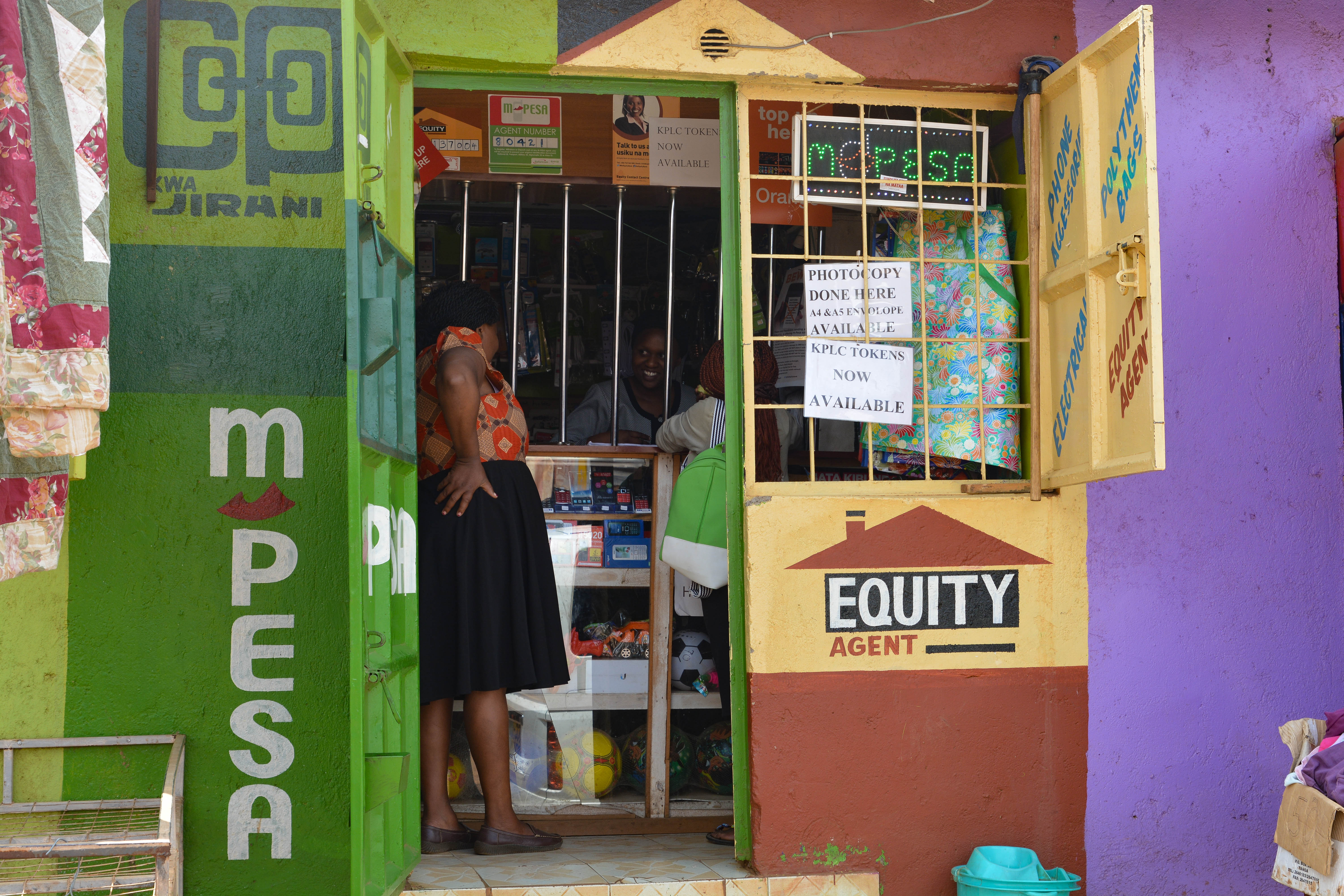 M-PESA mobile money and Equity agent in Nairobi, Kenya.